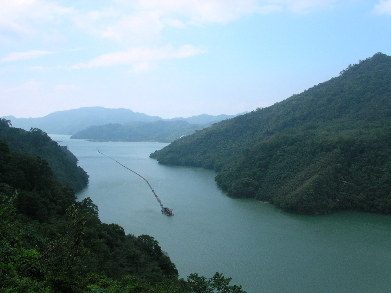 Shimen Reservoir Taiwan